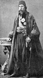 Garabed Artin Pasha Davoudian (Davoud Pasha), 1st mutasarrif of Mount Lebanon Mutasarrifate, from 1861 till 1868